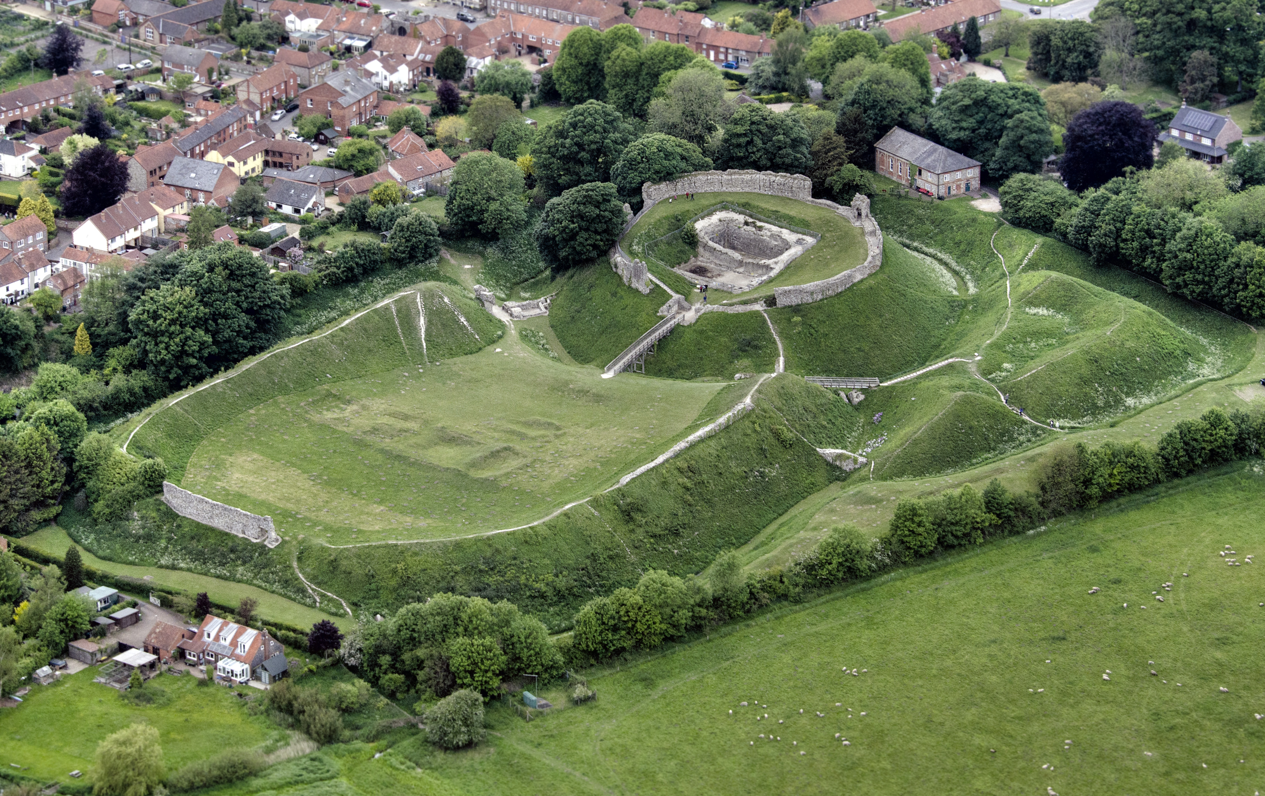 Aerial shot of Castle Acre Castle.